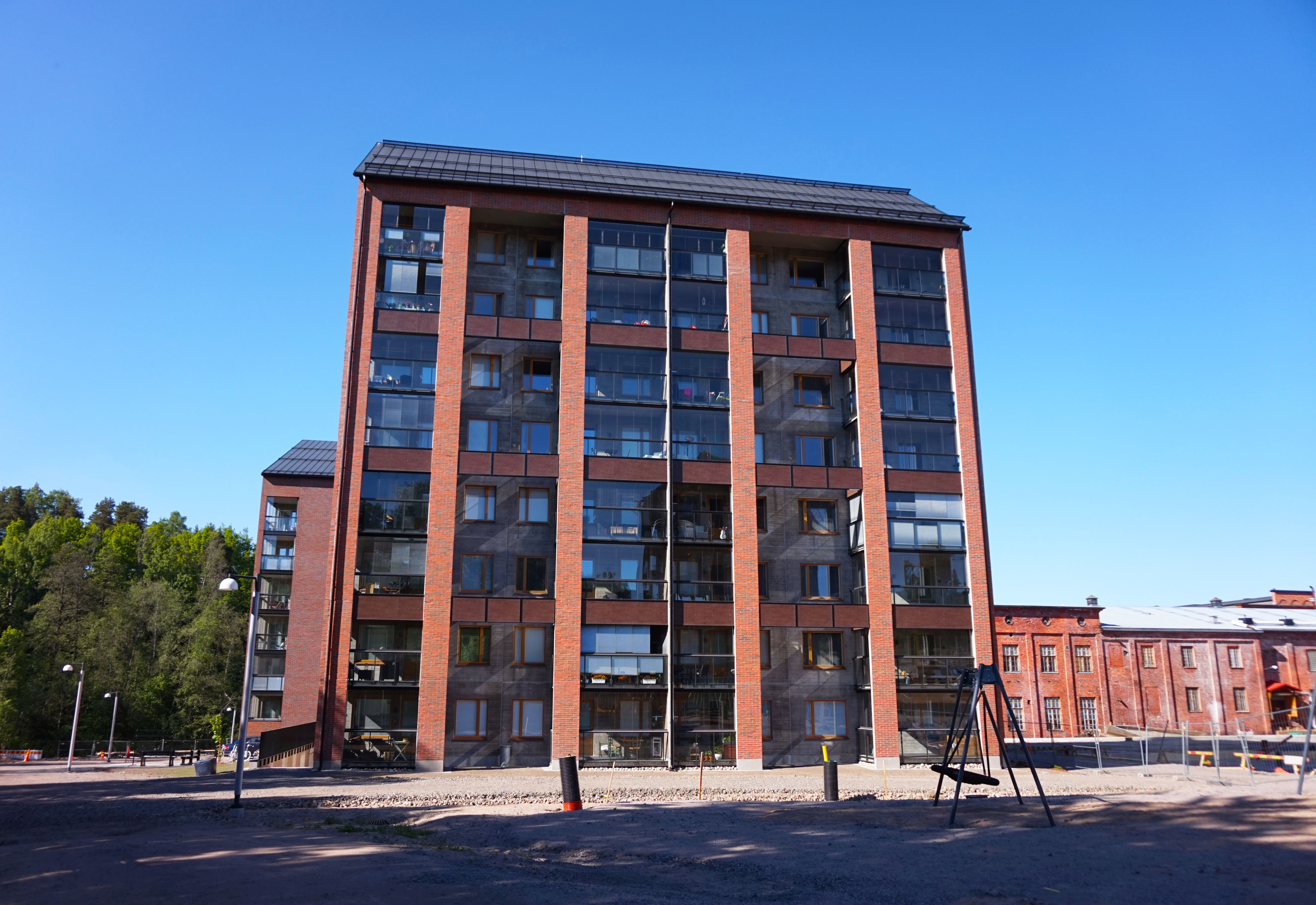 Piipputori 1 in Kangas subdistrict in Tourula district, Jyväskylä